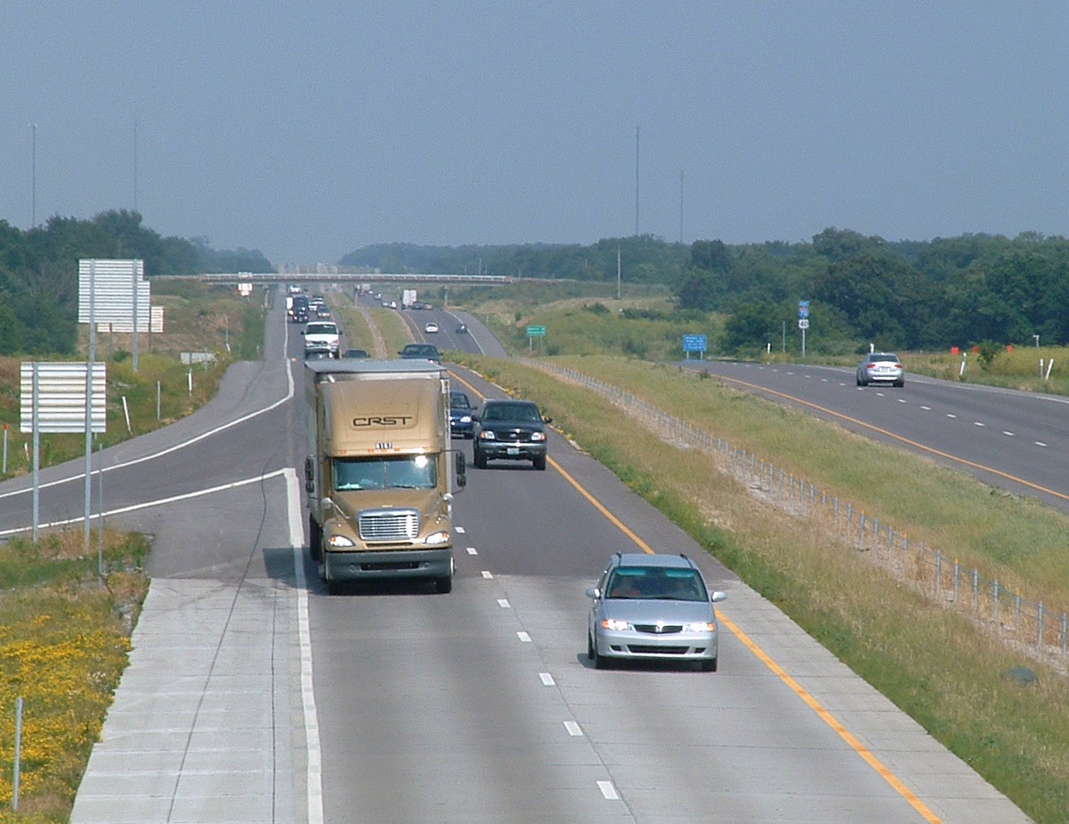 Interstate 70 in western Missouri. Photographed June 16, 2006 in western Saline County, Missouri by Kelly Martin.